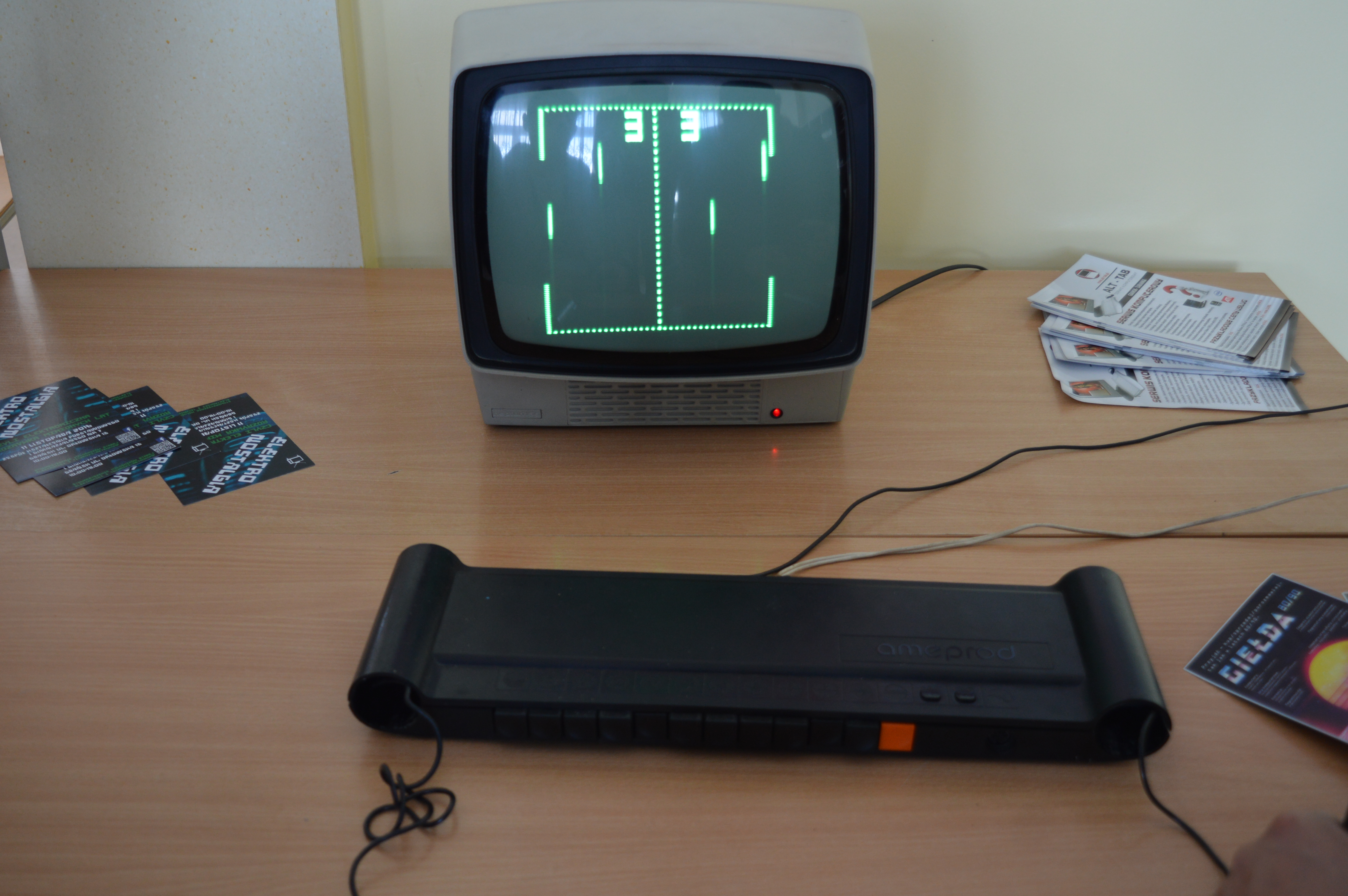 Ameprod game console.